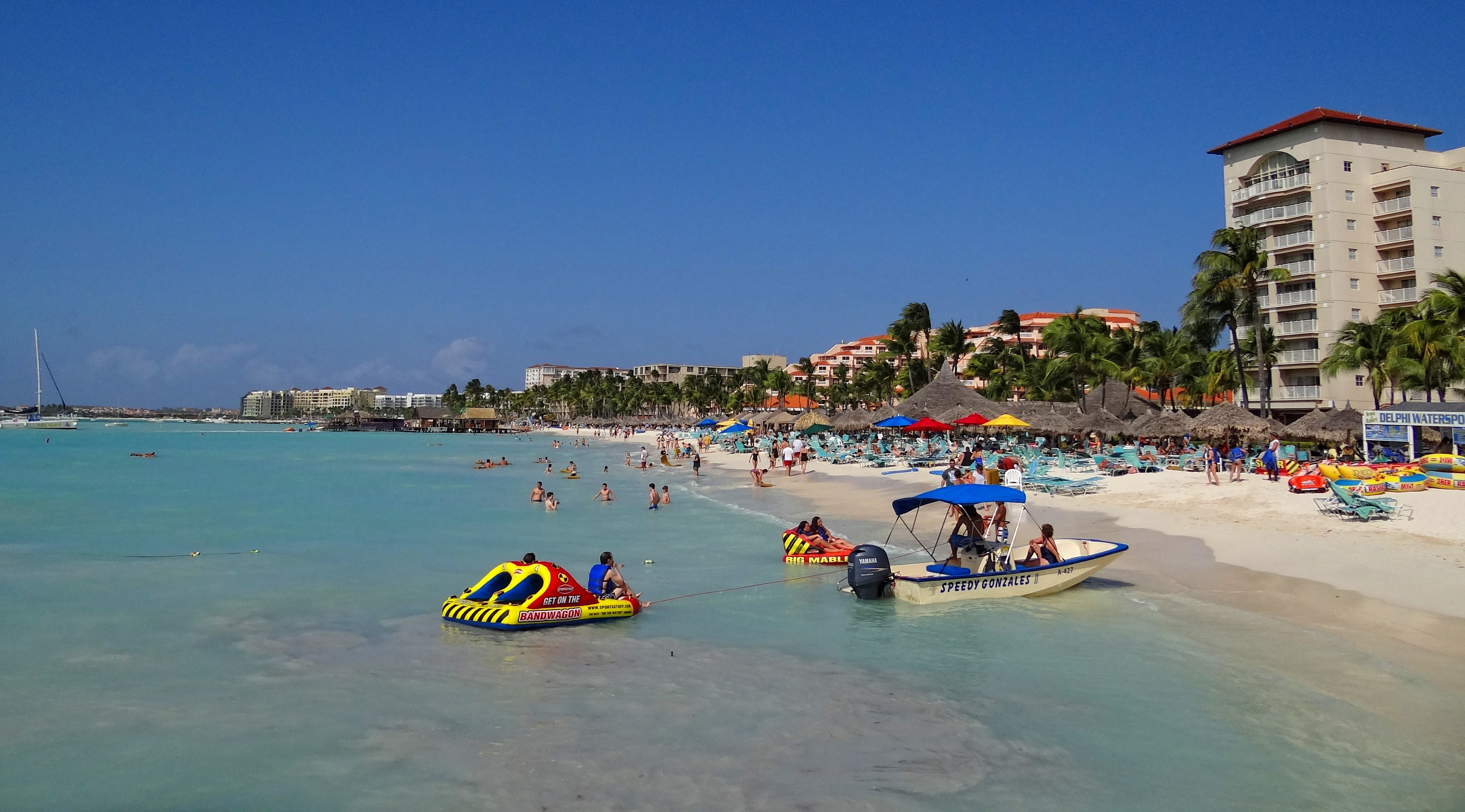 A view towards the northern part of Palm Beach, Aruba, photographed from the pier at the Hyatt Regency Resort.